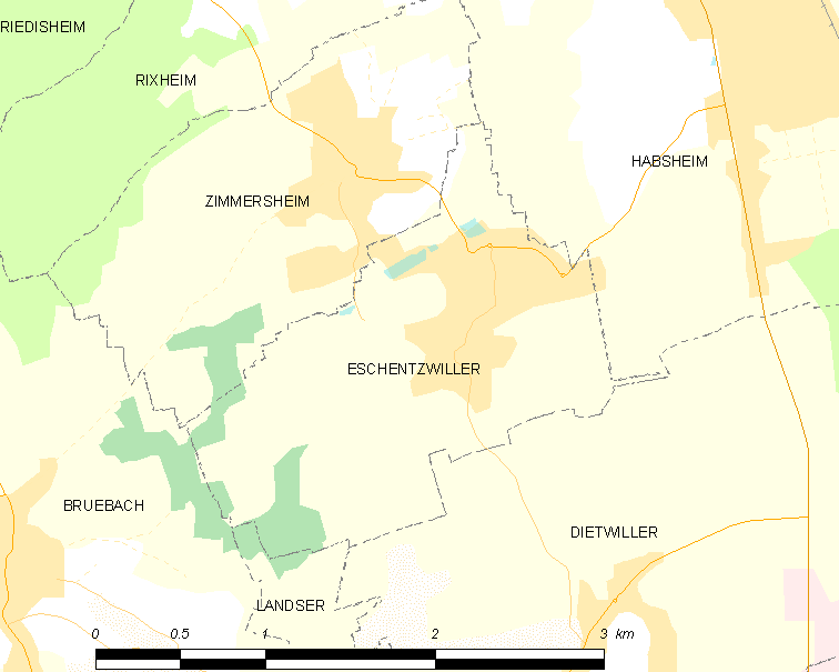 Map of French municipality